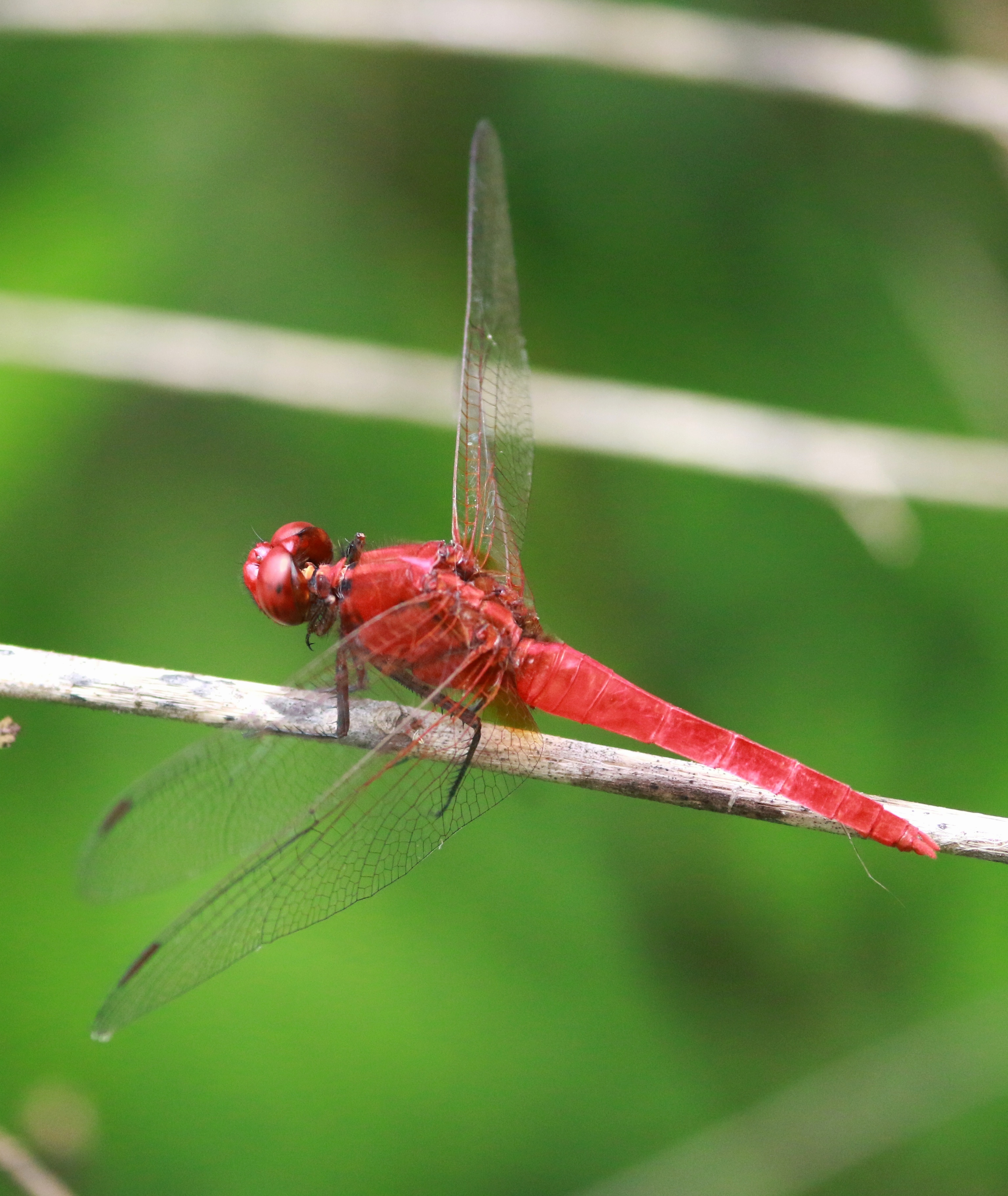 Rufous Marsh Glider